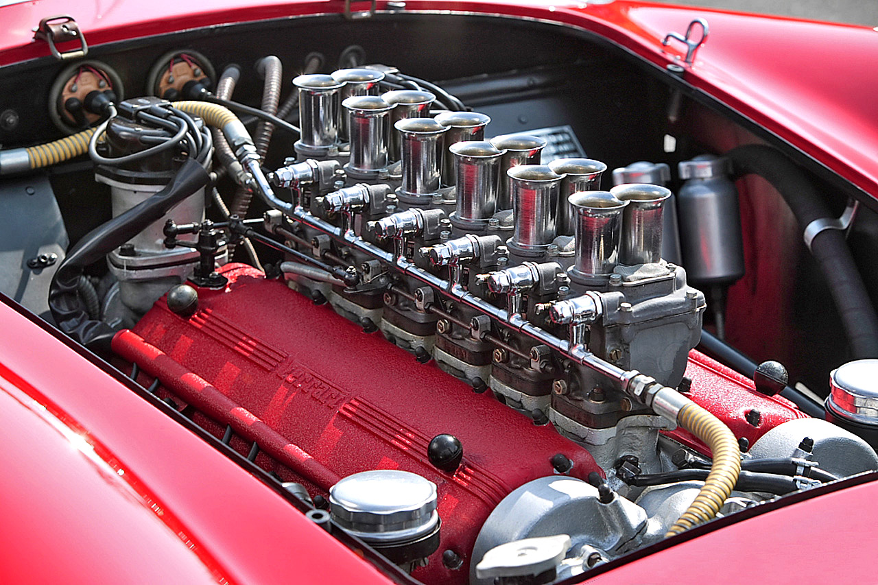 V12 engine of Ferrari 250 TR